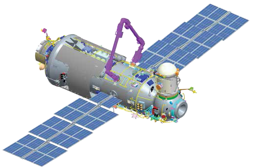 Computer-generated rendering of the Nauka Multipurpose Laboratory Module (MLM) along with the European Robotic Arm (ERA).